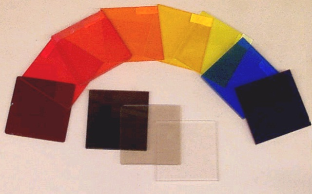 Various coloured and ND filters; photo by User:DrBob